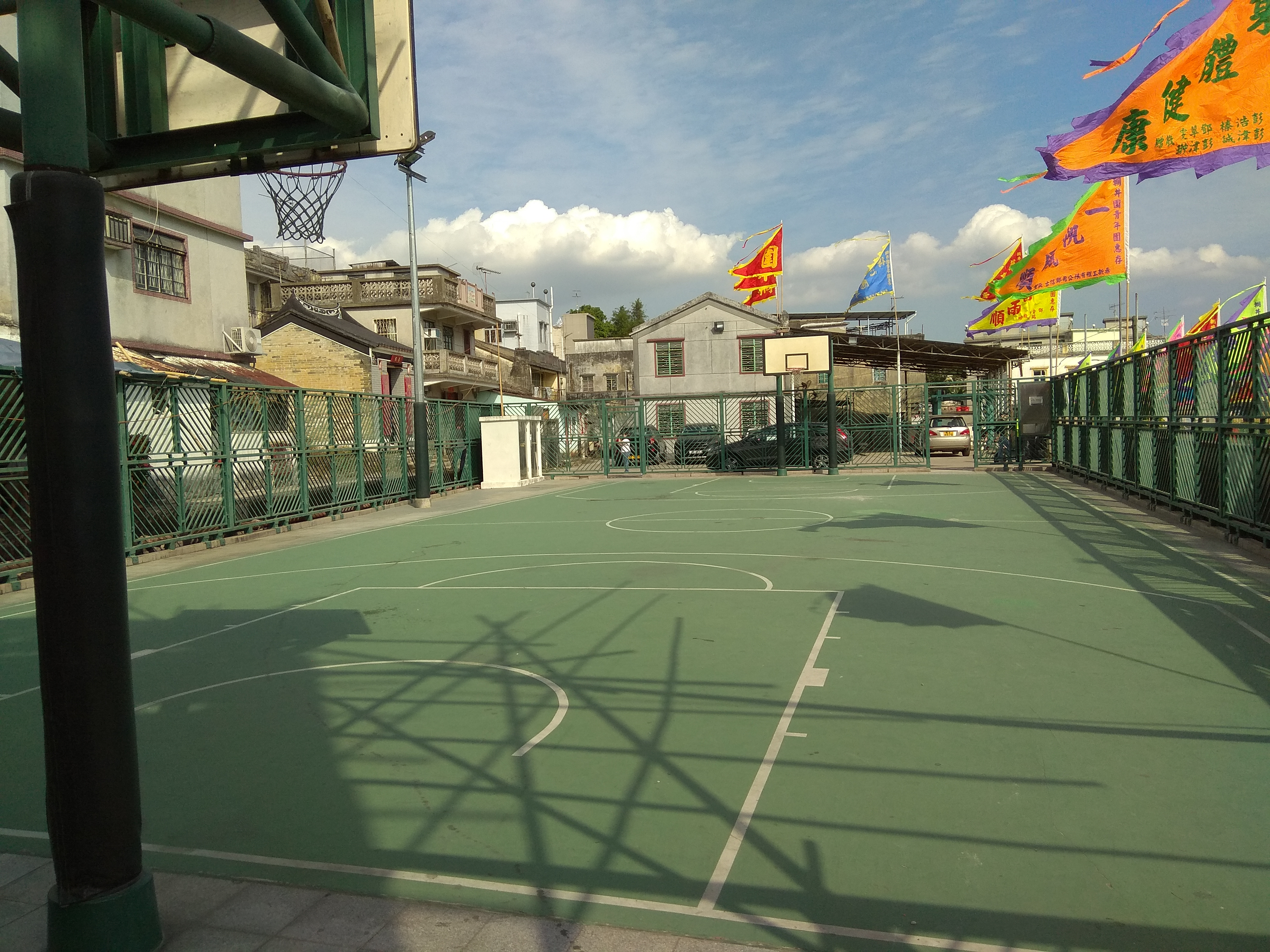 Entrance gate of Mong Tseng Wai, Yuen long District, Hong Kong